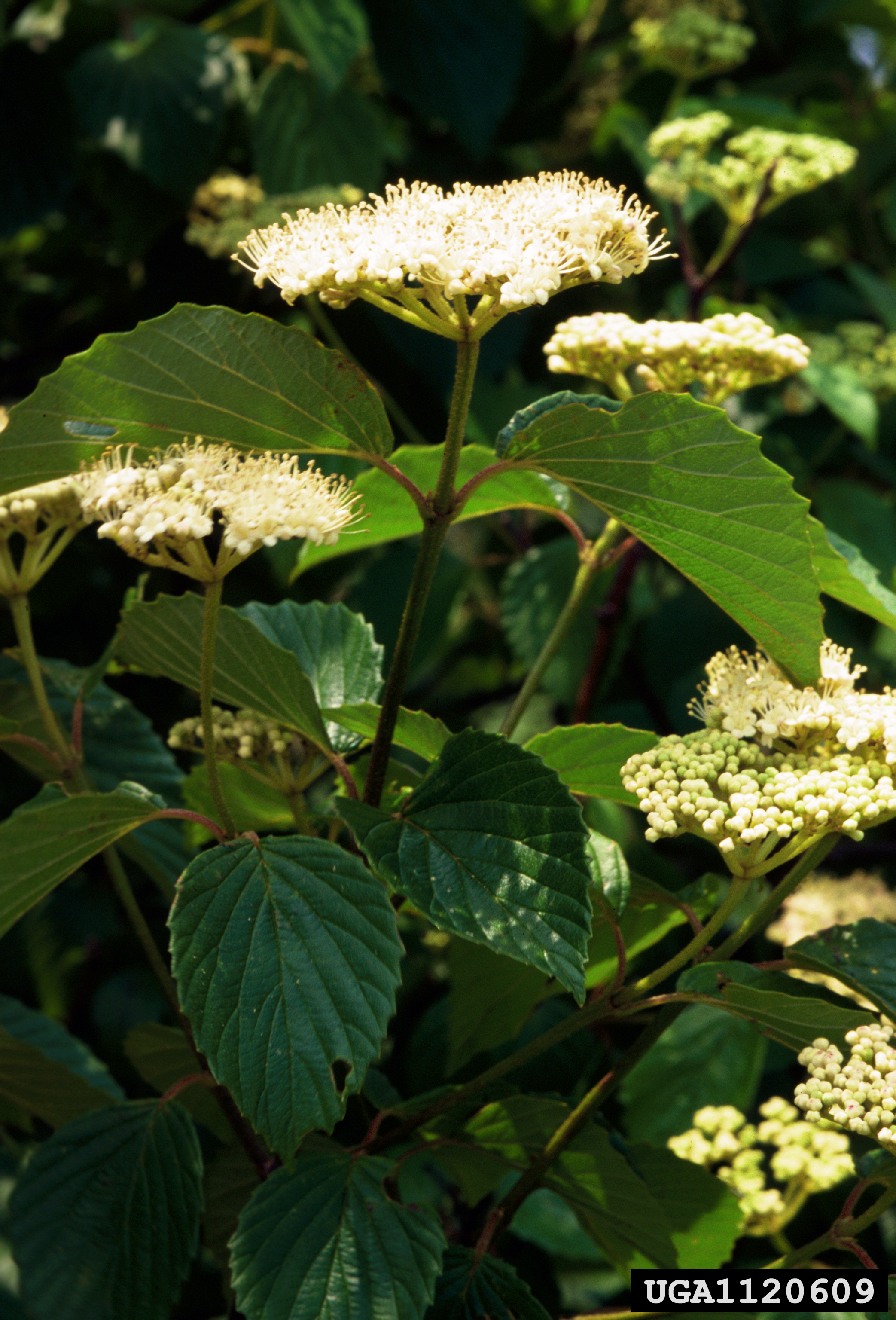 Viburnum dentatum flowers, Georgia, USA